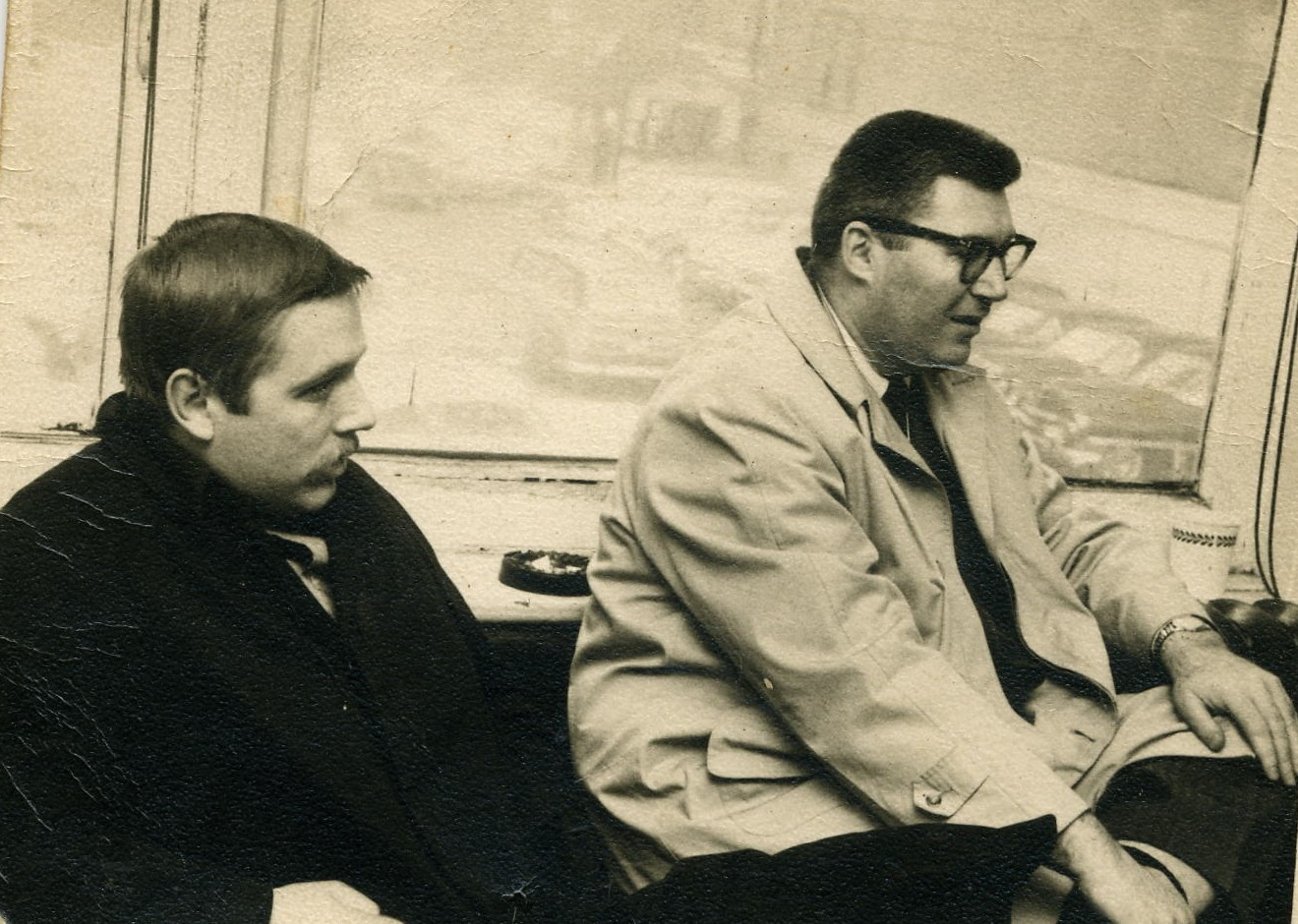 Dick Sheridan and Nat Pierce at Ames studios NYC, 1961